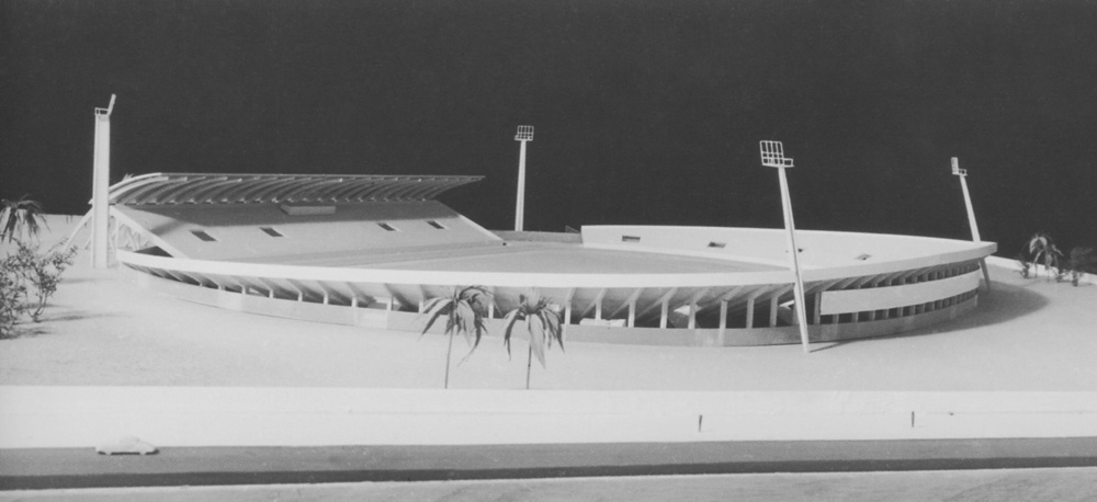 Bagdad Stadium. Architecture: Keil do Amaral